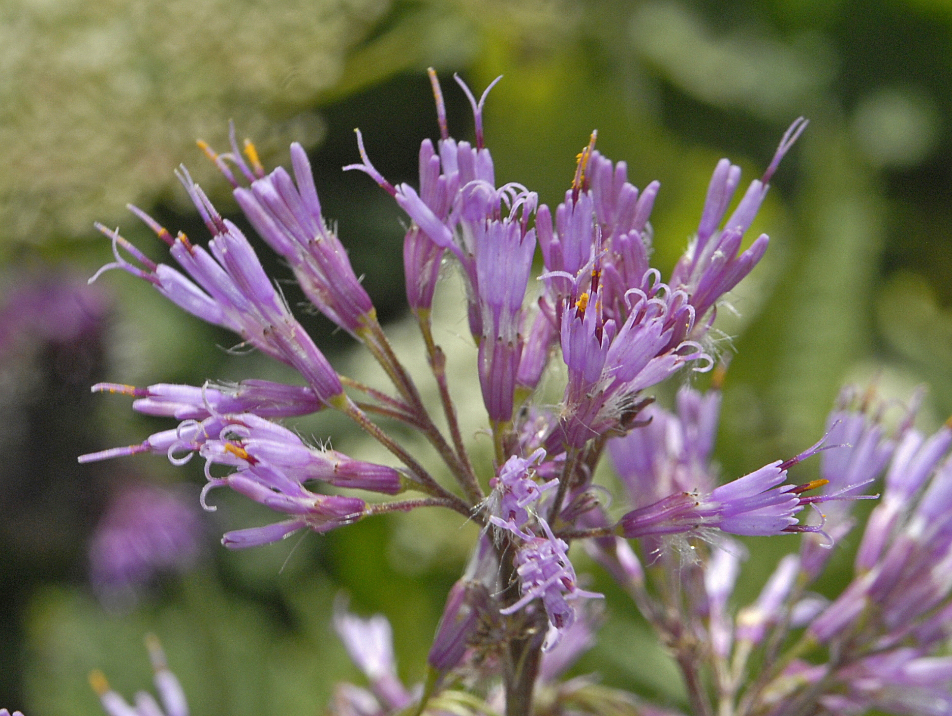 Flowers of Adenostyles alliariae at the Giardino Botanico Alpino Chanousia